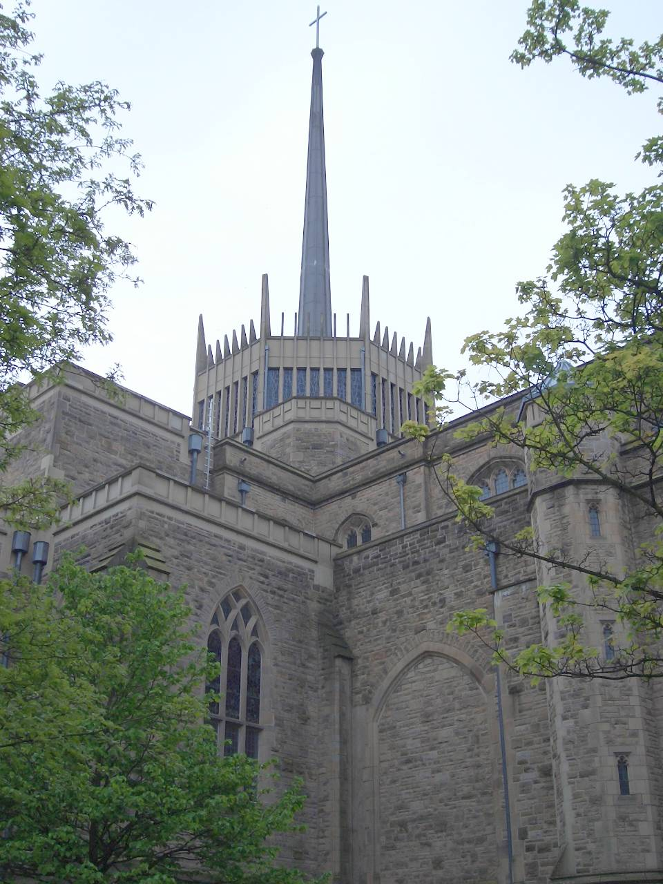 My photo of Blackburn cathedral